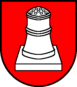 Coat of arms of Selzach, Canton Solothurn